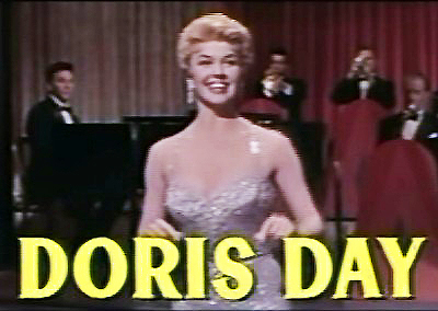 Cropped screenshot of Doris Day from the trailer for the film Love Me or Leave Me (1955).